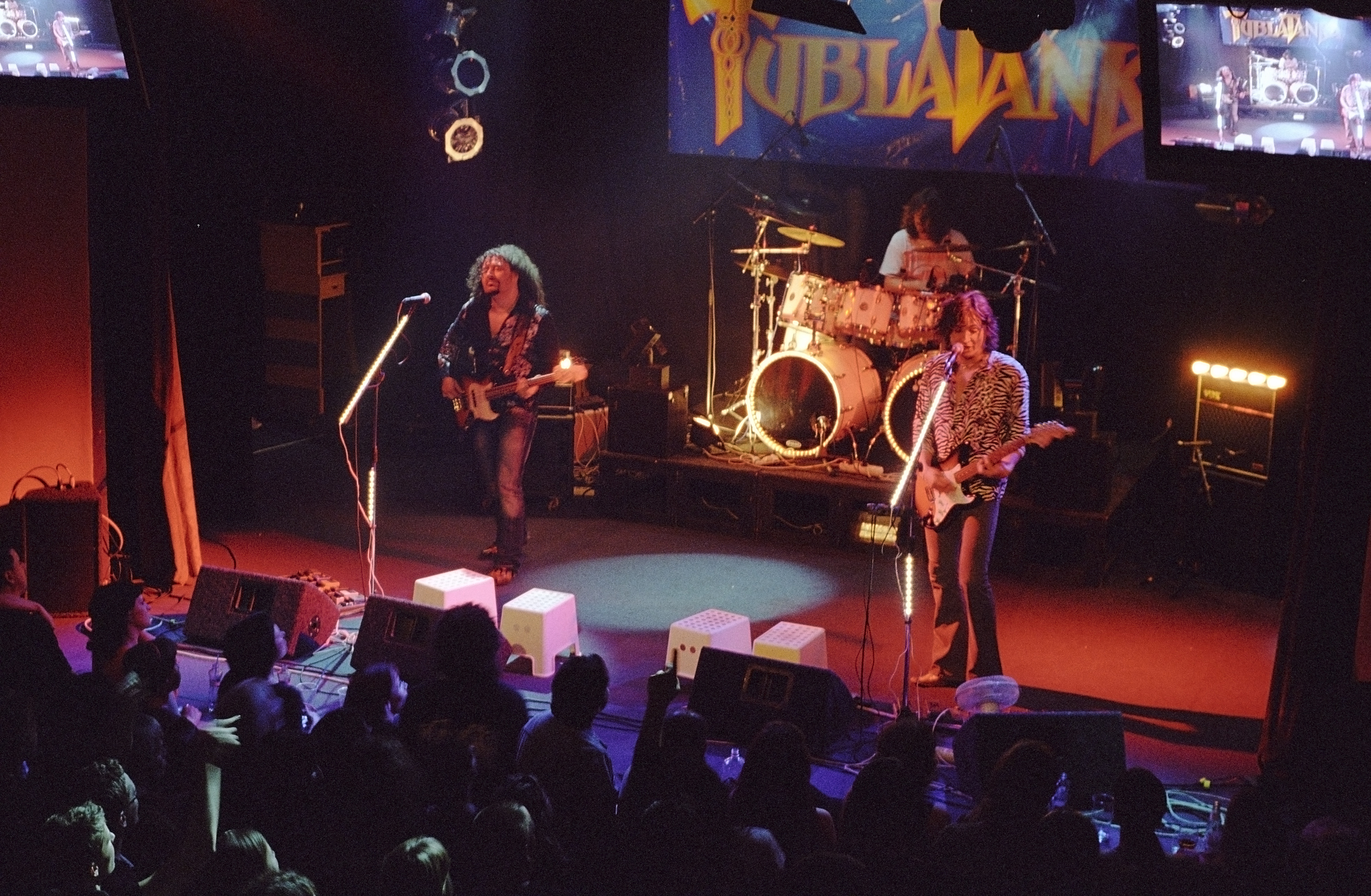 Slovak rock band Tublatanka during concert in Prague, 2008.